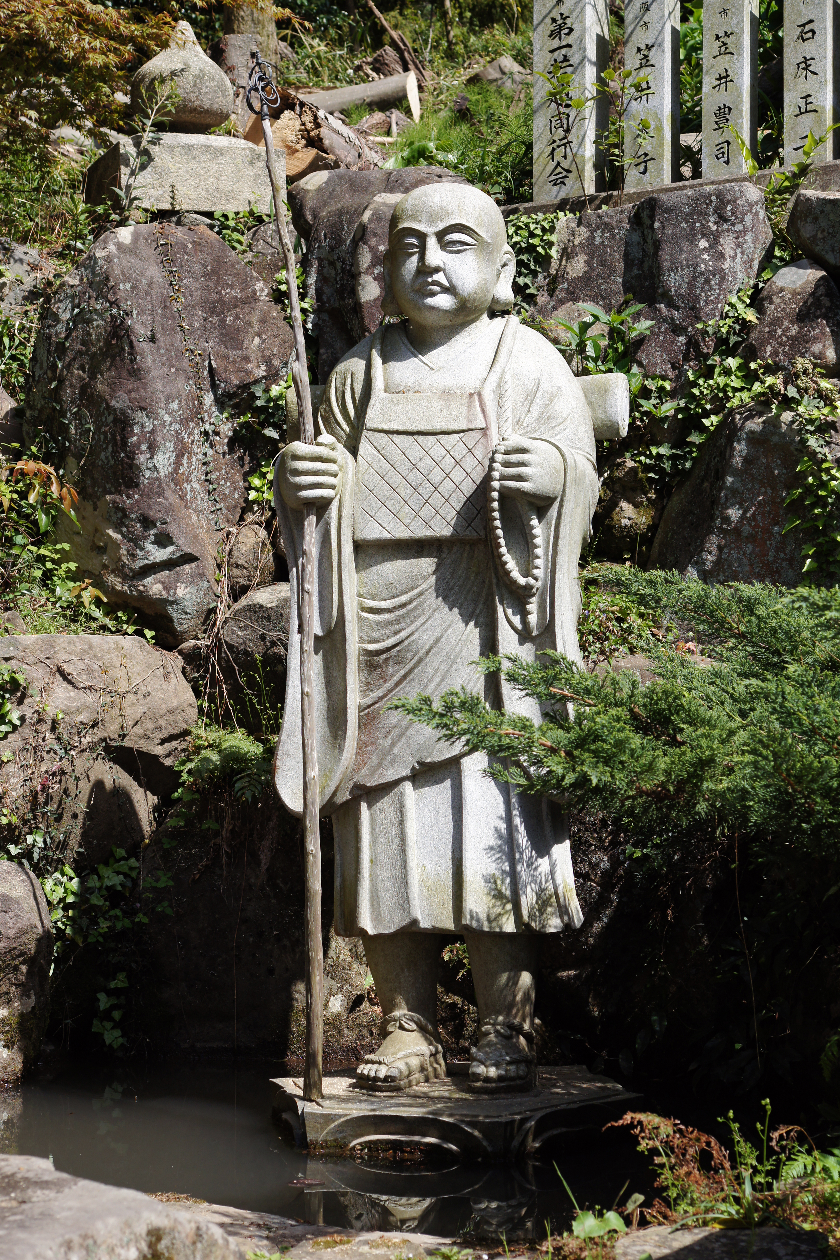 Sangyo-an in Tonosho, Kagawa prefecture, Japan